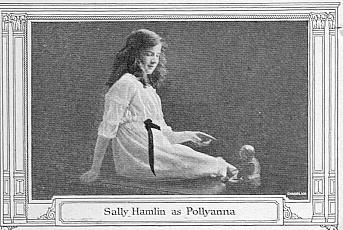 Victor Records catalog supplement, October 1917